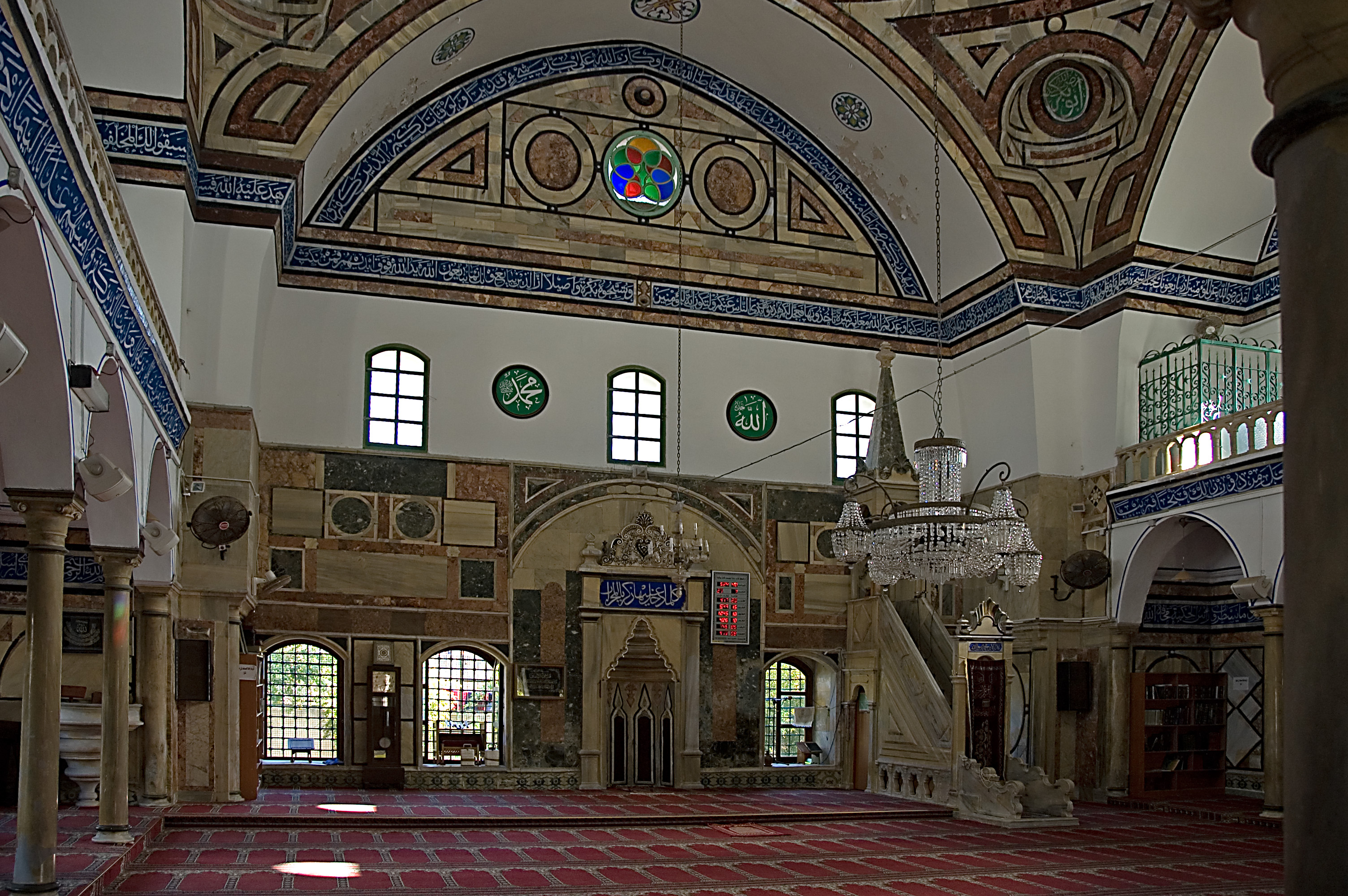 Interior of Jezza Pasha Mosque, Acre, Israel